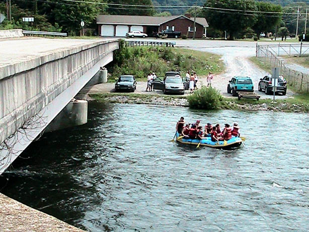 Hunter Bridge whitewater put-in on the Watauga River, northeast of Elizabethton, Tennessee. Approximately 75 minutes afloat downstream of the TVA Wilbur Dam.